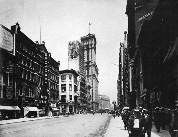 Photograph of the Broadway Theatre (1888-1929) in 1912, on the left, showing "Hanky Panky"